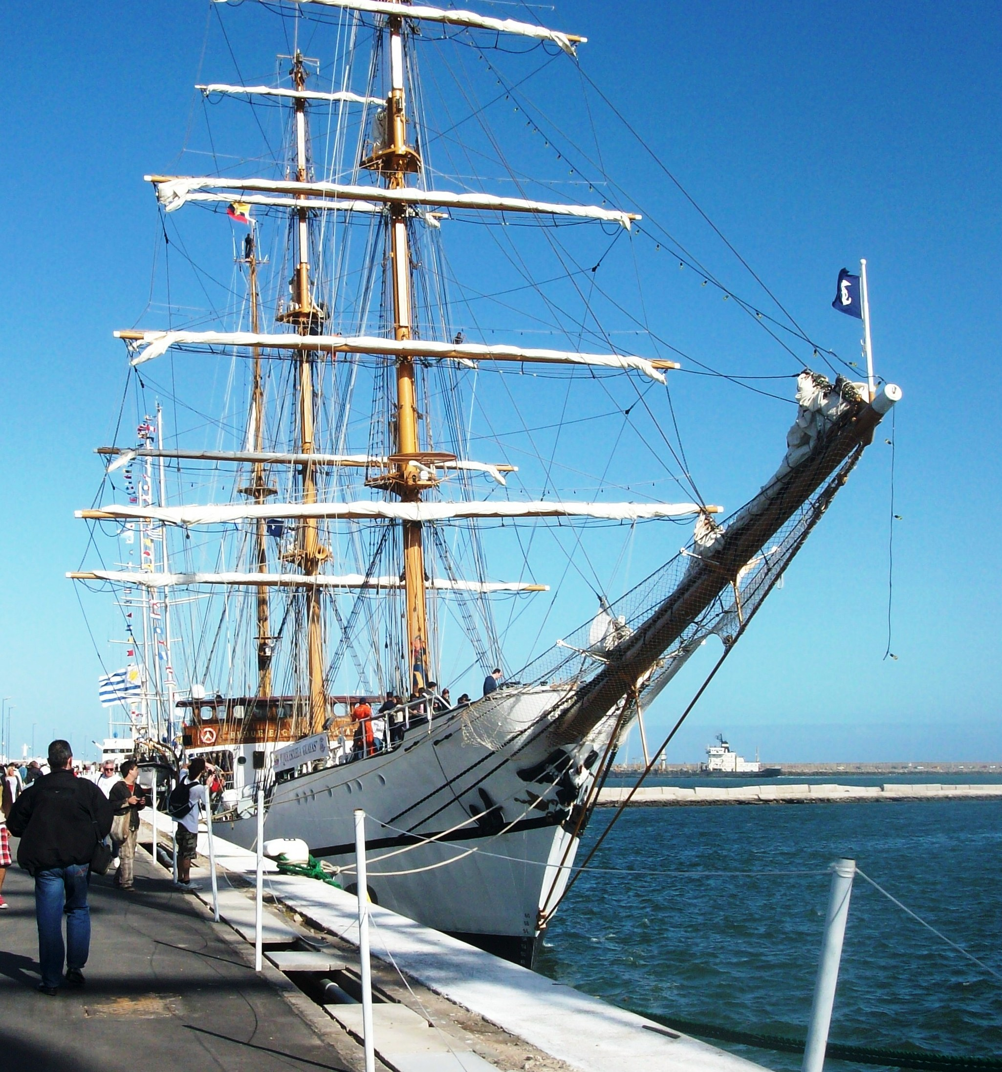 Tall ship Guayas viewed from bow while at dock in Mar del Plata, Argentina